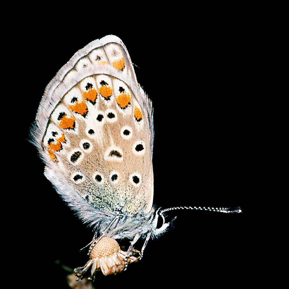 Common Blue (Polyommatus icarus), female, in Dresden-Heller, Saxony, Germany